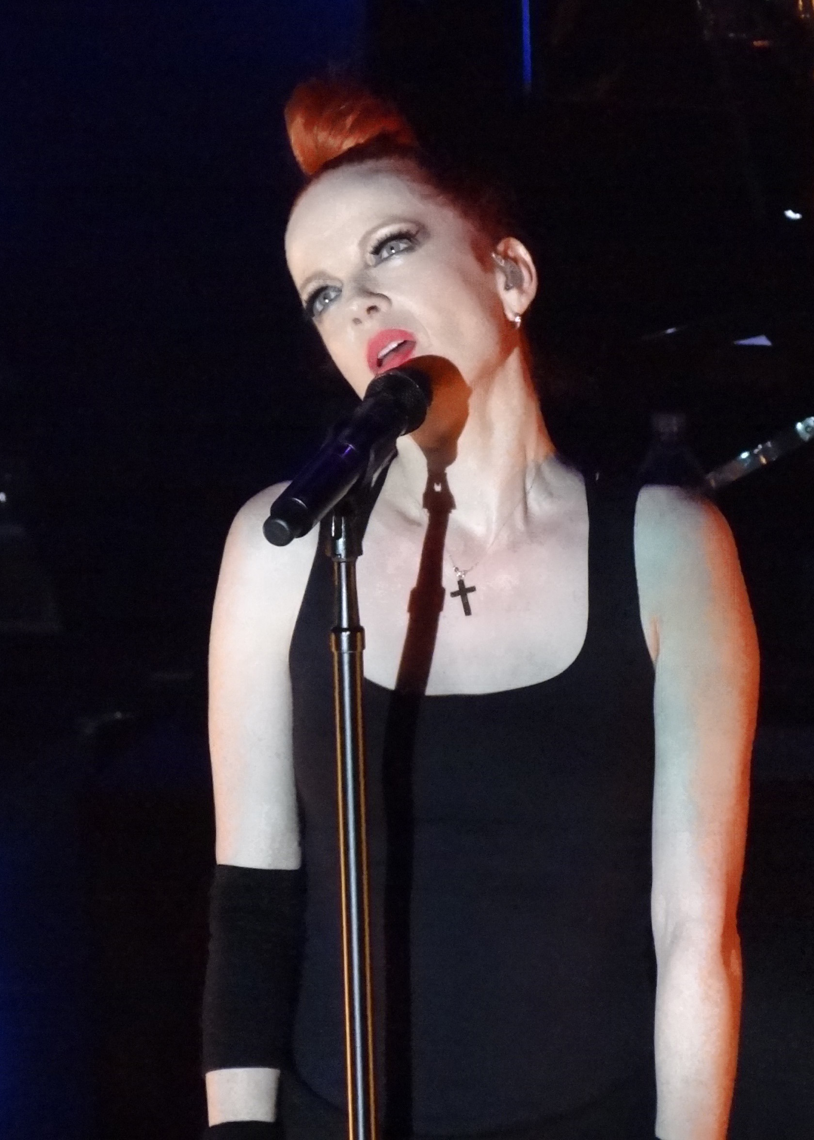 Manson performing as part of Garbage, Montreal. March 2013